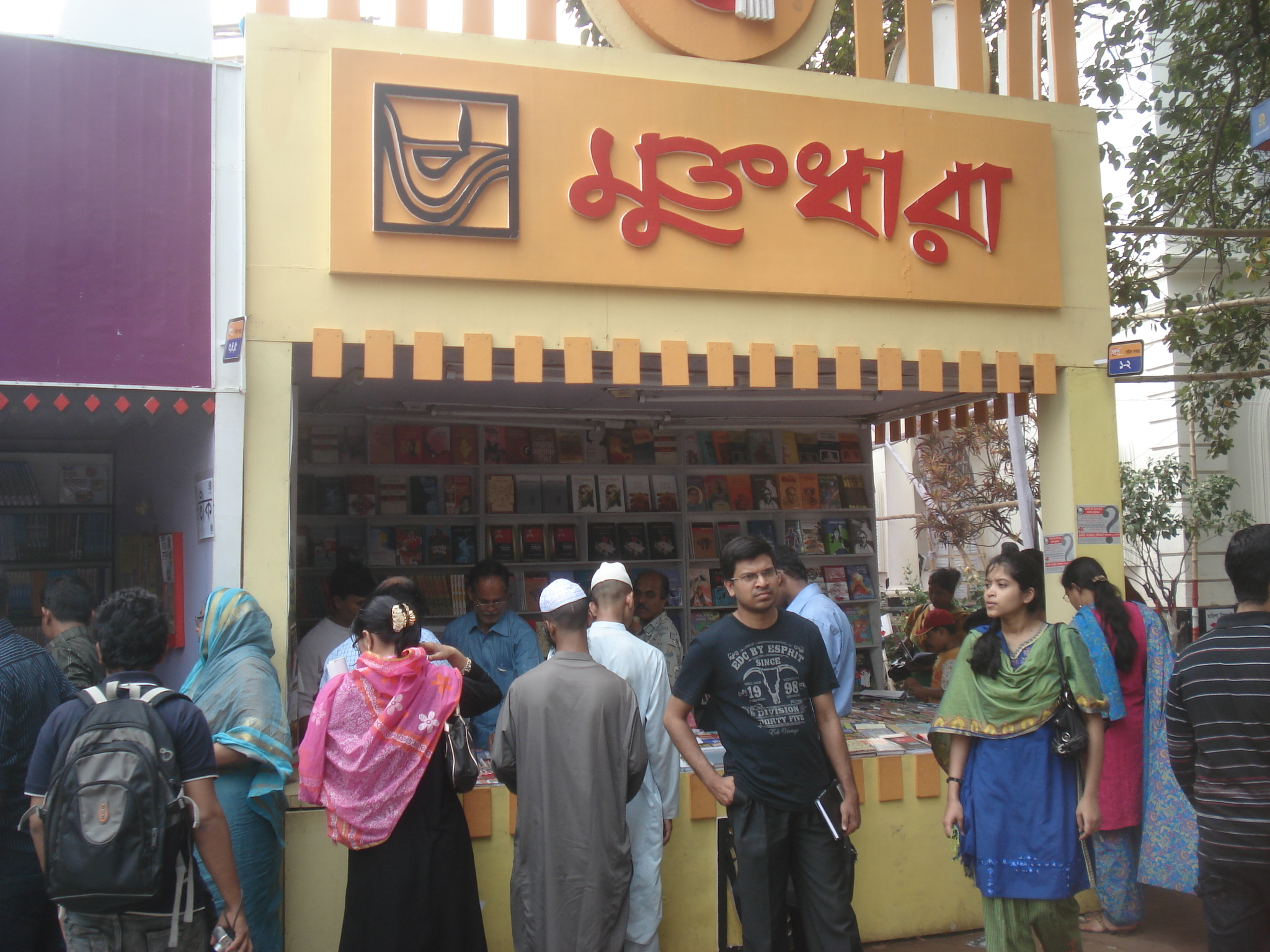 Photo of the stall of Muktodhara in Bangla Academy Book Fair of 2010.